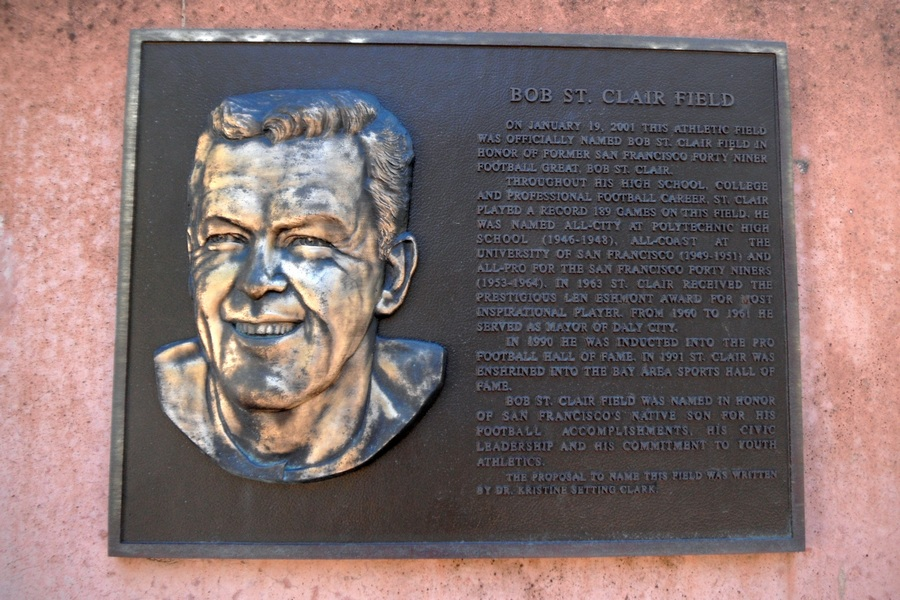 A plaque of NFL Hall of Famer Bob St. Clair outside reconstructed Kezar Stadium.